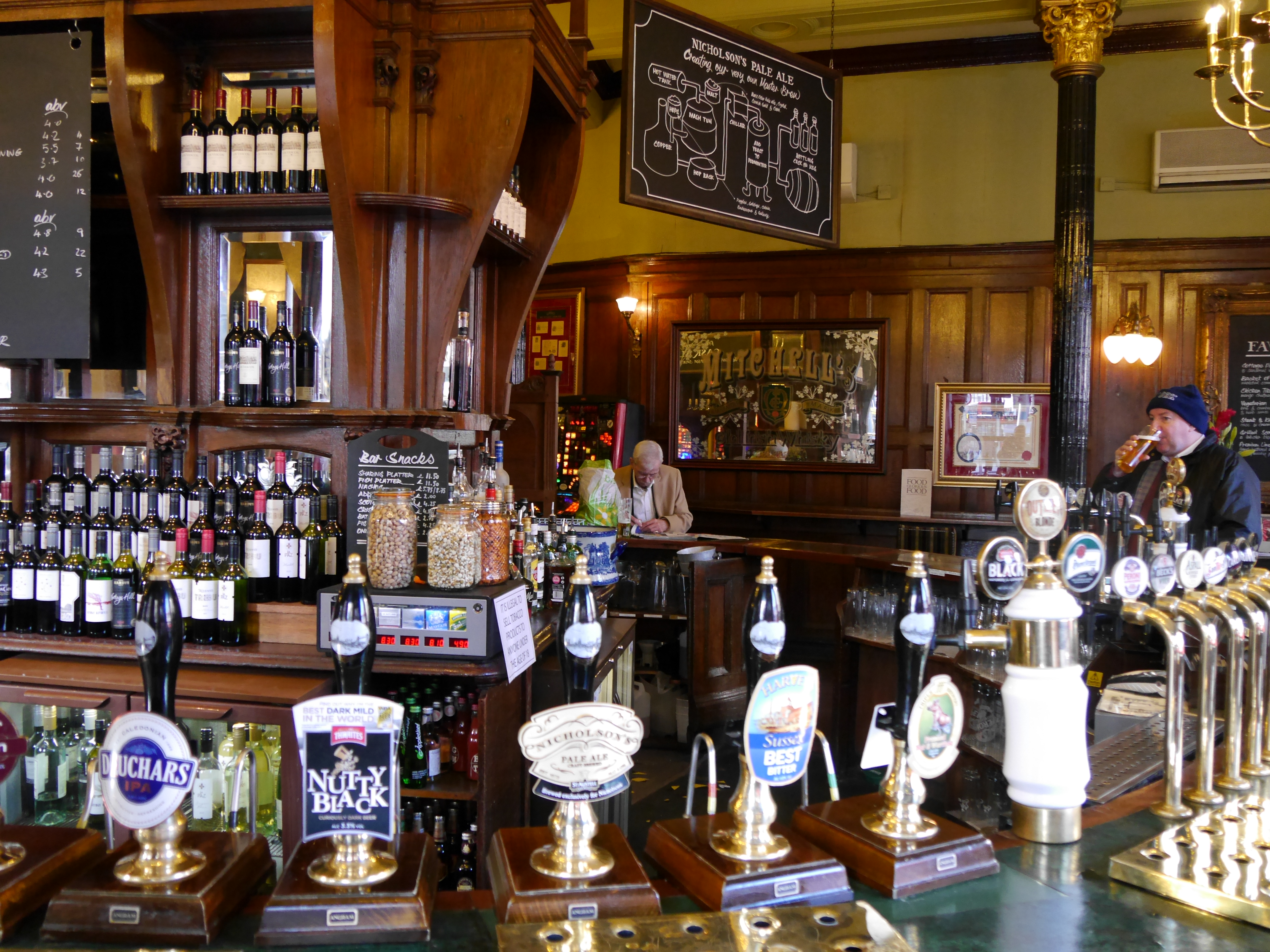 Falcon, Clapham Junction